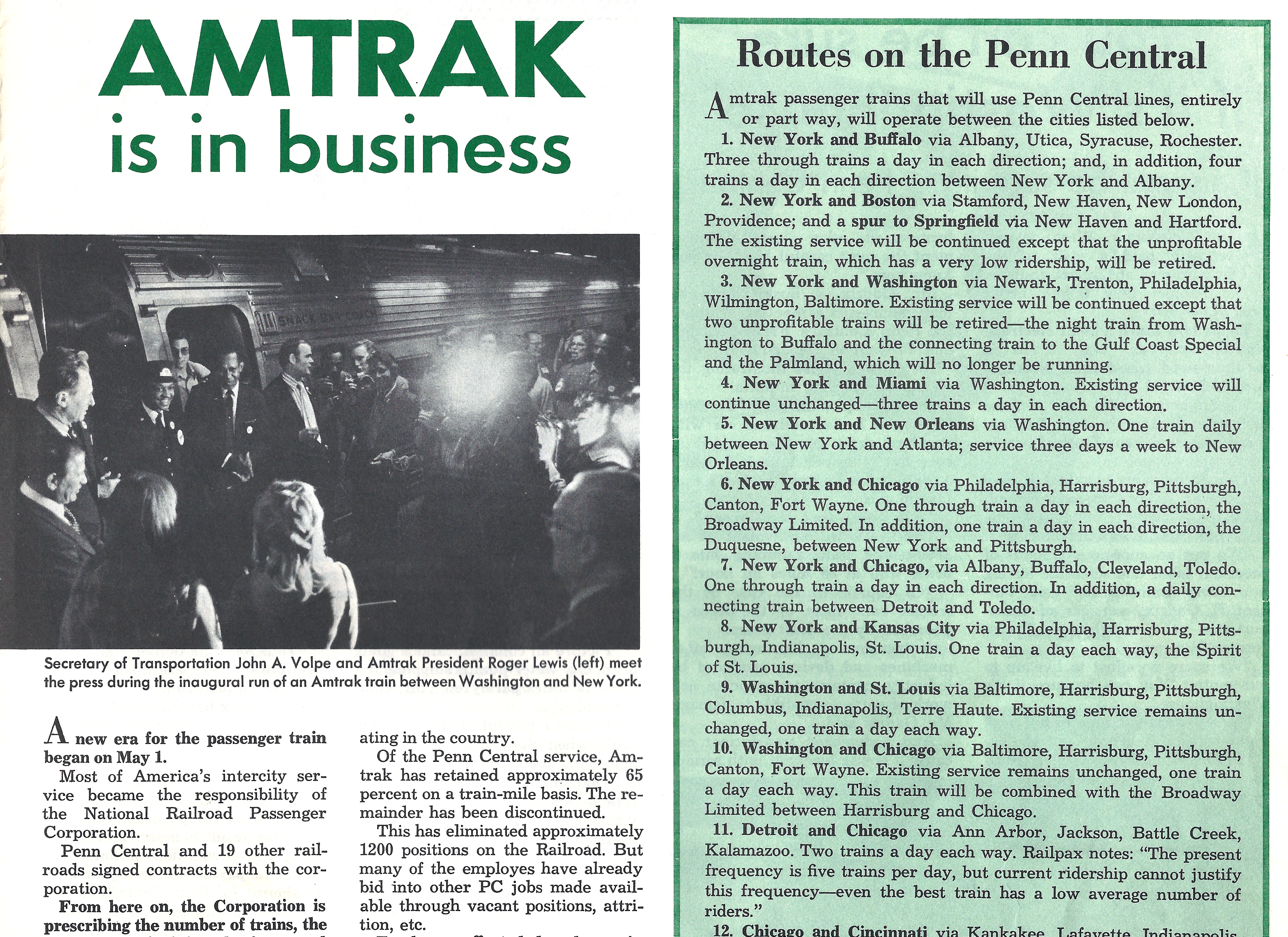 Partial excerpt from an article in Penn Central Railroad's employee publication, PC Post(R), announcing the inaugural run of an Amtrak train between Washington and New York on "day one", May 1, 1971. Other Amtrak routes on the Penn Central is shown to the right. Of all Amtrak's train mileage on day one, more than 40% was on the PC. Photo shows then-U.S. Secretary of Transportation John Volpe and Amtrak President Roger Lewis greeting the press.